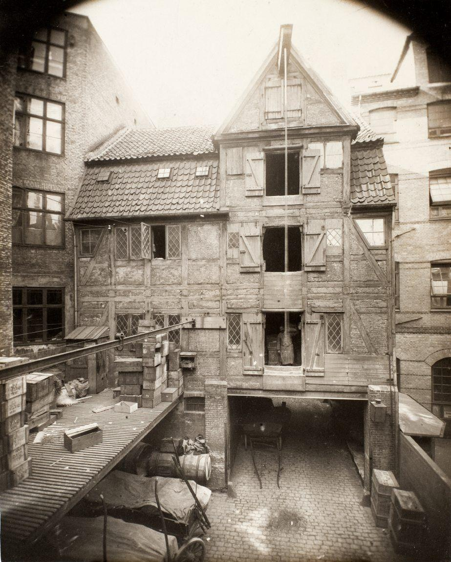 Adolph Trier & Foldschmidt's warehouse at Amagertorv 8 in Copenhagen, Denmark